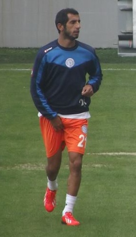 Cumali bişi antrenmanda